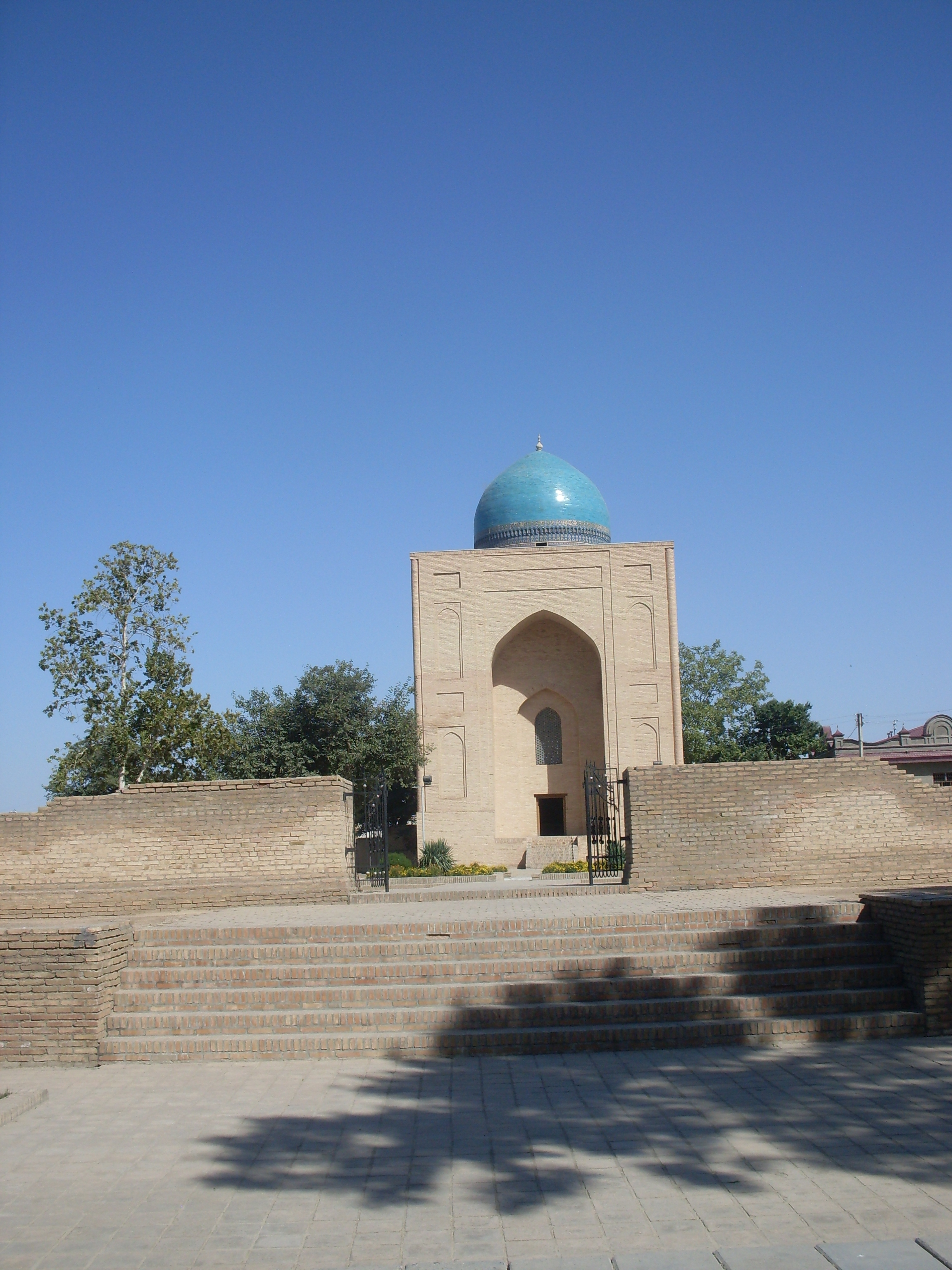 Mausoleum Bibi Khanum